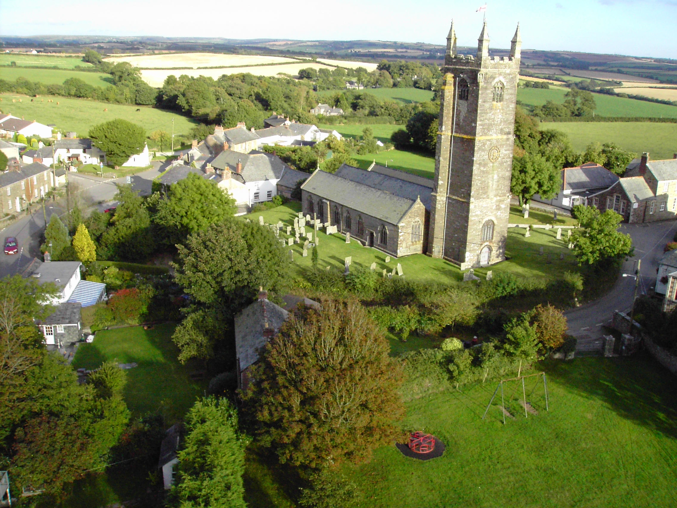 KAP Photo of St.Mabyn